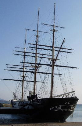 Replica ship of Japanese battleship Kaiyō Maru in Hakodate